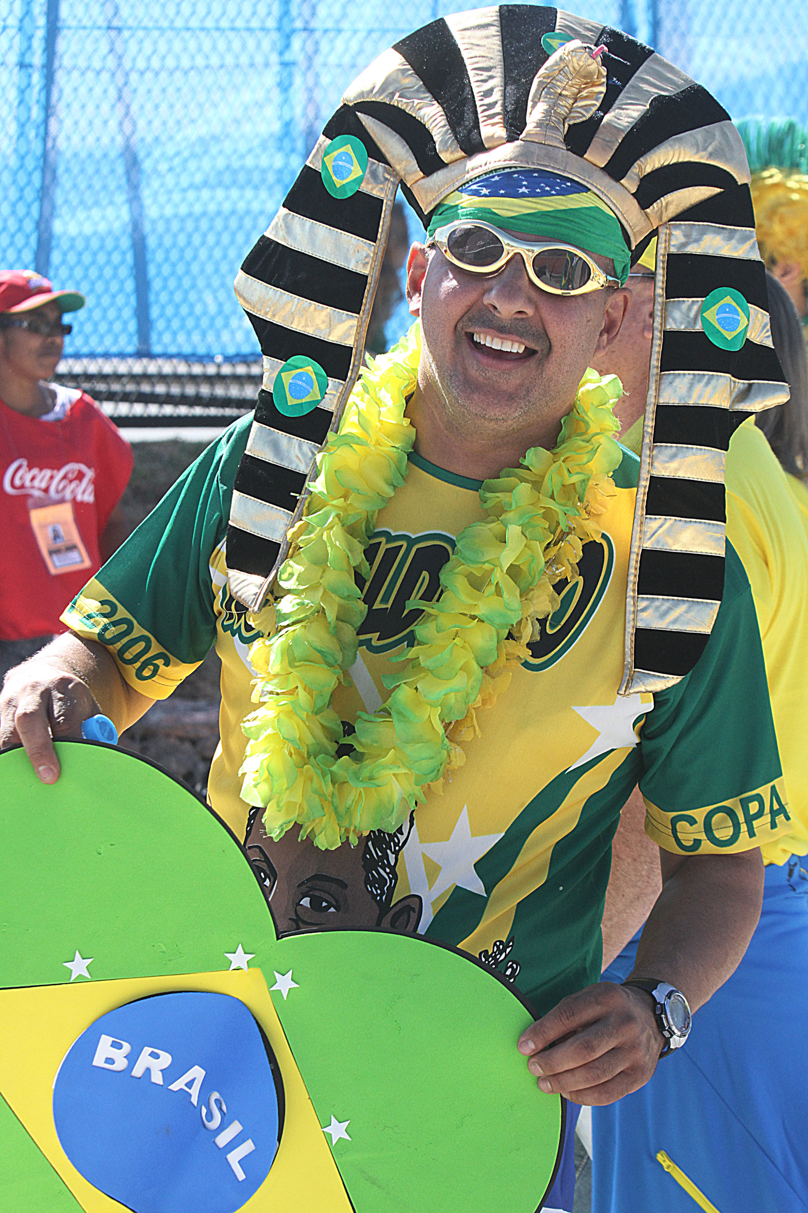 Brazil and Croatia match at the FIFA World Cup (2014-06-12; fans)